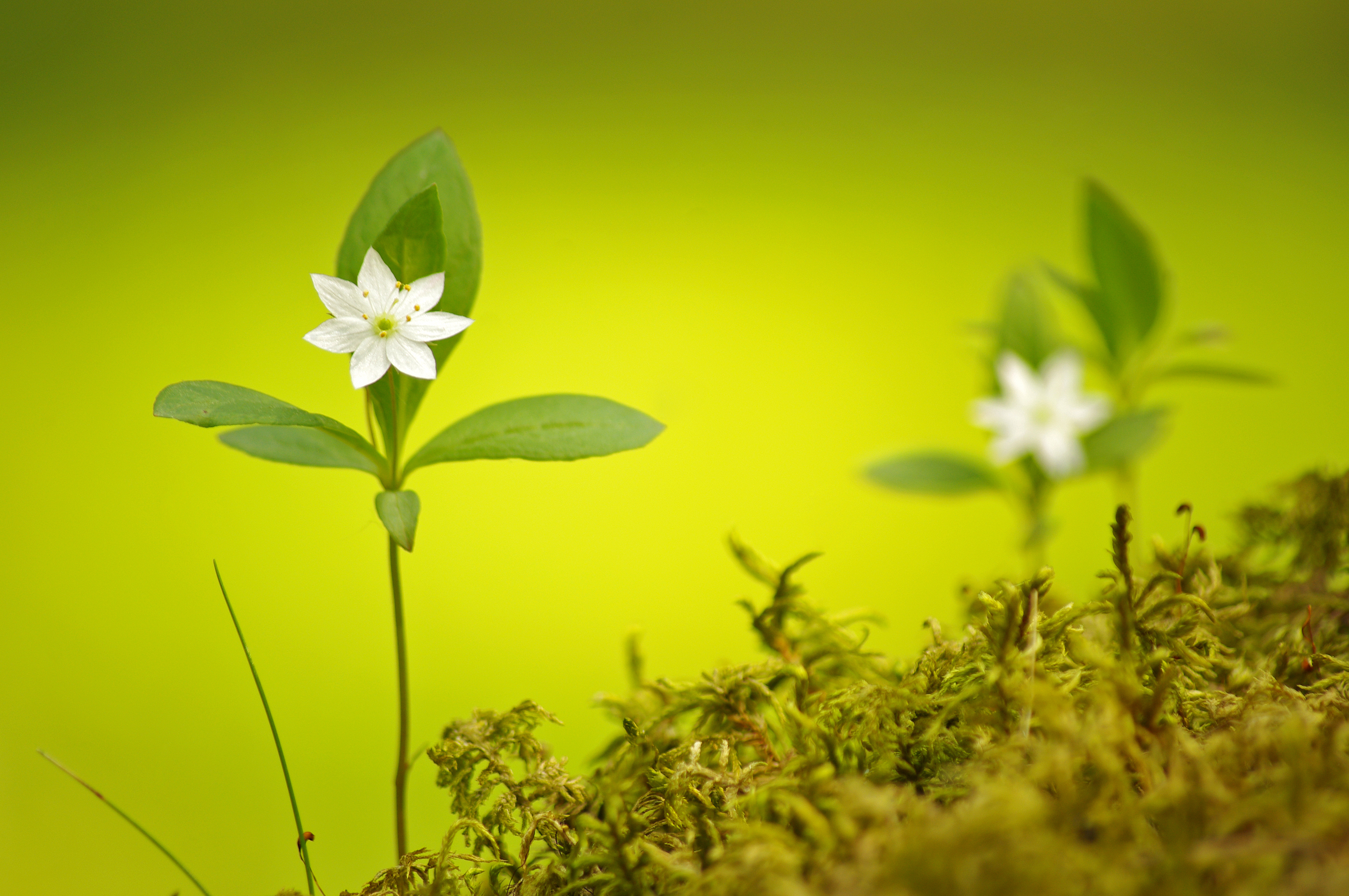 Trientalis europaea in Estonia.